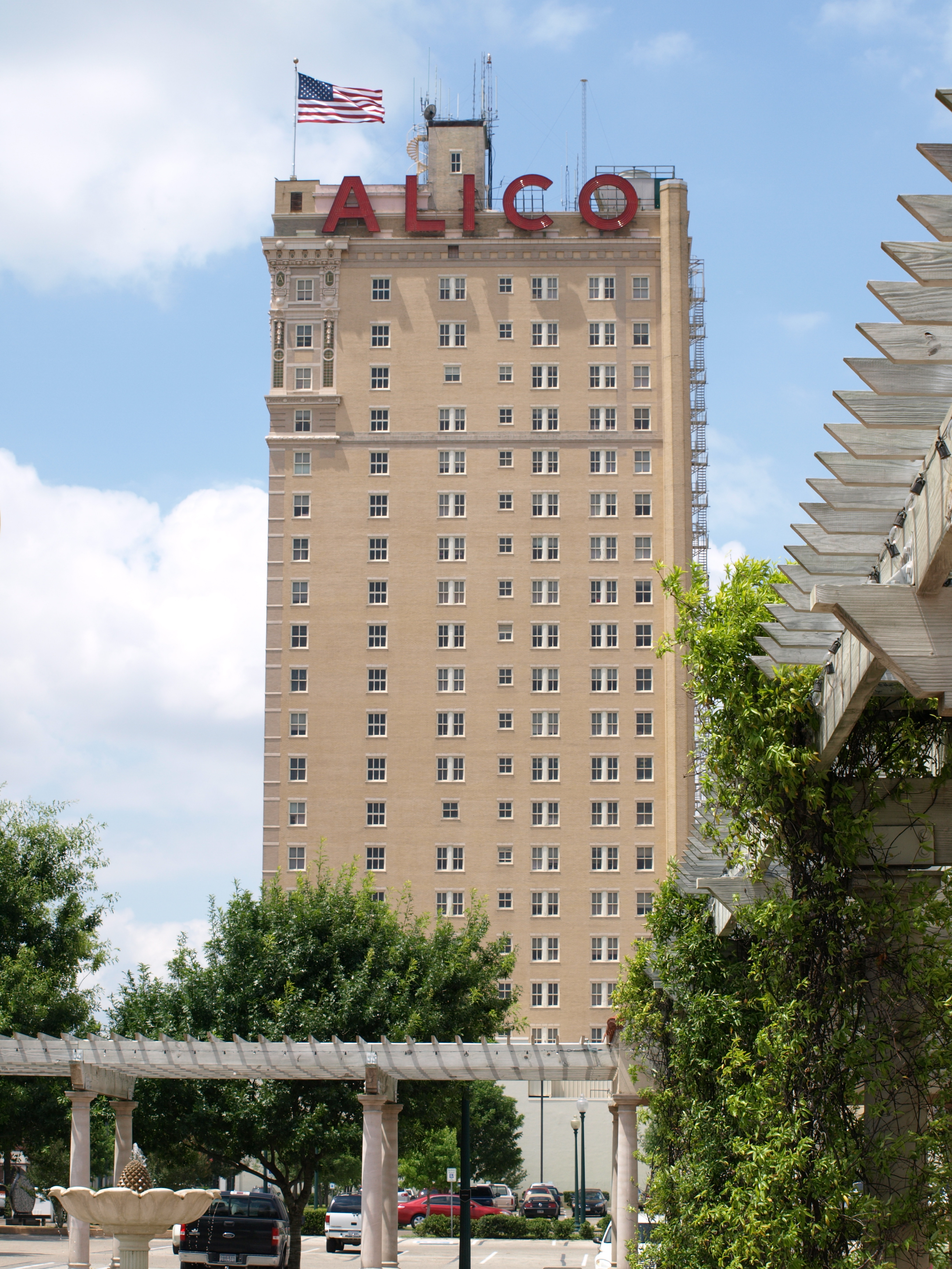 ALICO Tower in Waco, Texas, United States.